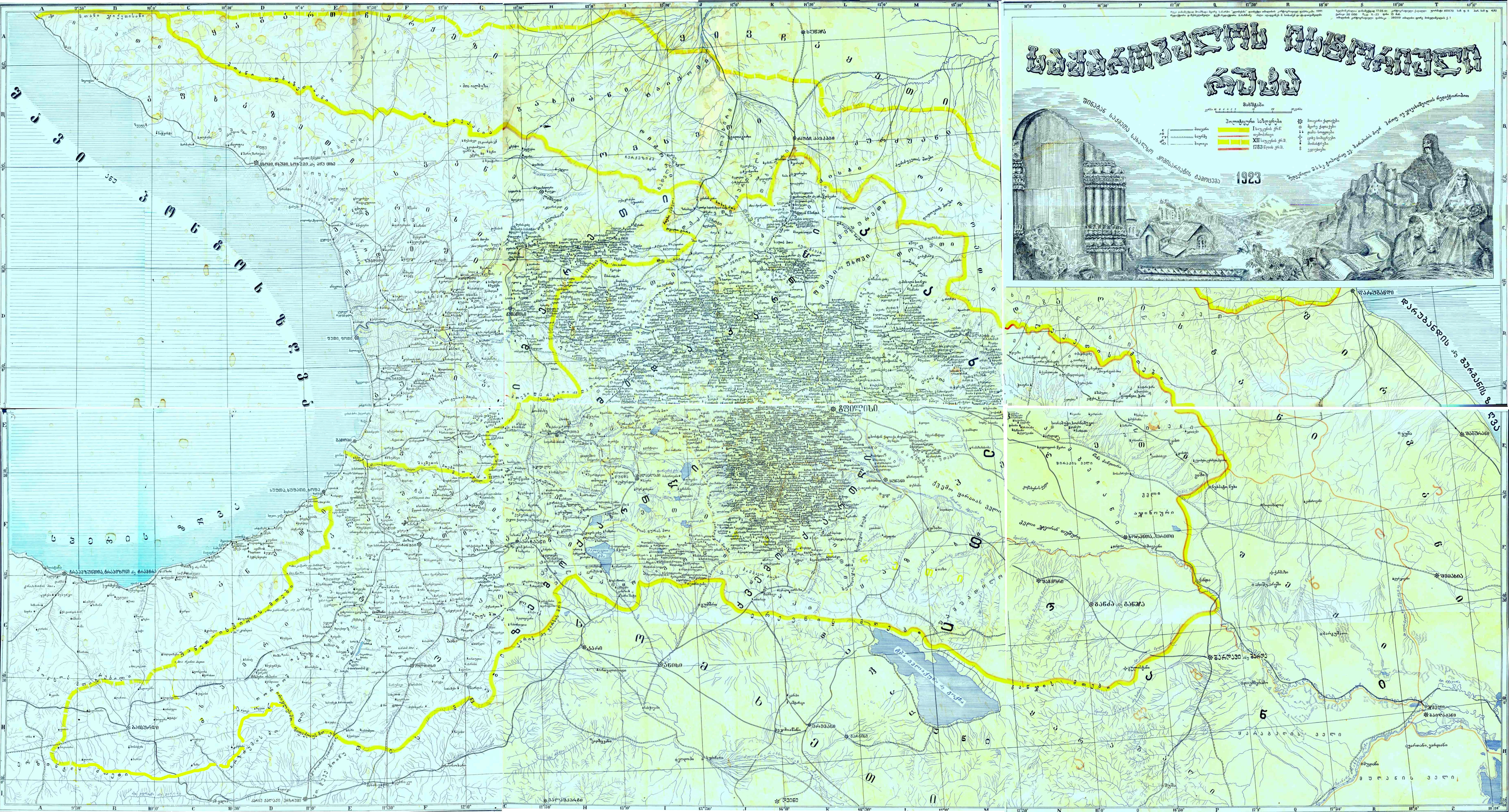 Historical map of Georgia